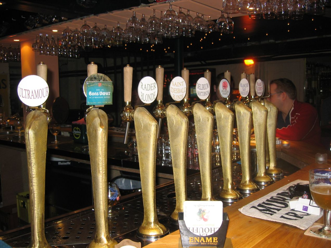 John White. Web site Permission given by author. "I attach one taken in the 2,00+ beer Delirium Café, in Brussels. It was taken by myself in March, 2003."